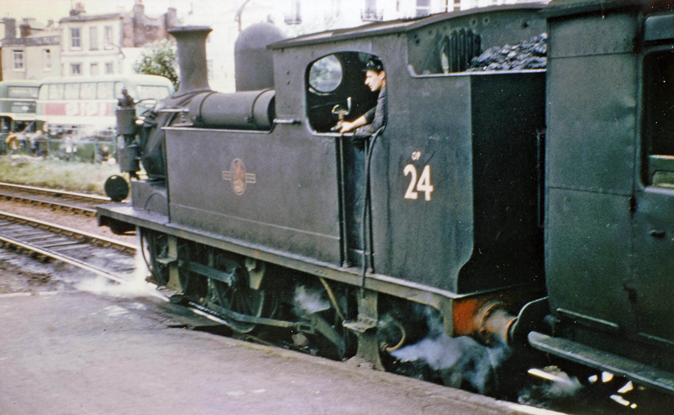 Ex-LSWR O2 class 0-4-4T at Ryde Esplanade. Calling at Esplanade station on a the 14.35 Ryde Pier Head to Cowes is No. W24 'Calbourne'. Some of these Adams O2s stayed on even after the end of steam on the Isle of Wight in late 1966: this one, built in 12/1891 it was brought across to the island in 4/25 and suvived until 3/67, to be preserved on the heritage Isle of Wight Steam Railway. (It seems here to have lost its 'W').